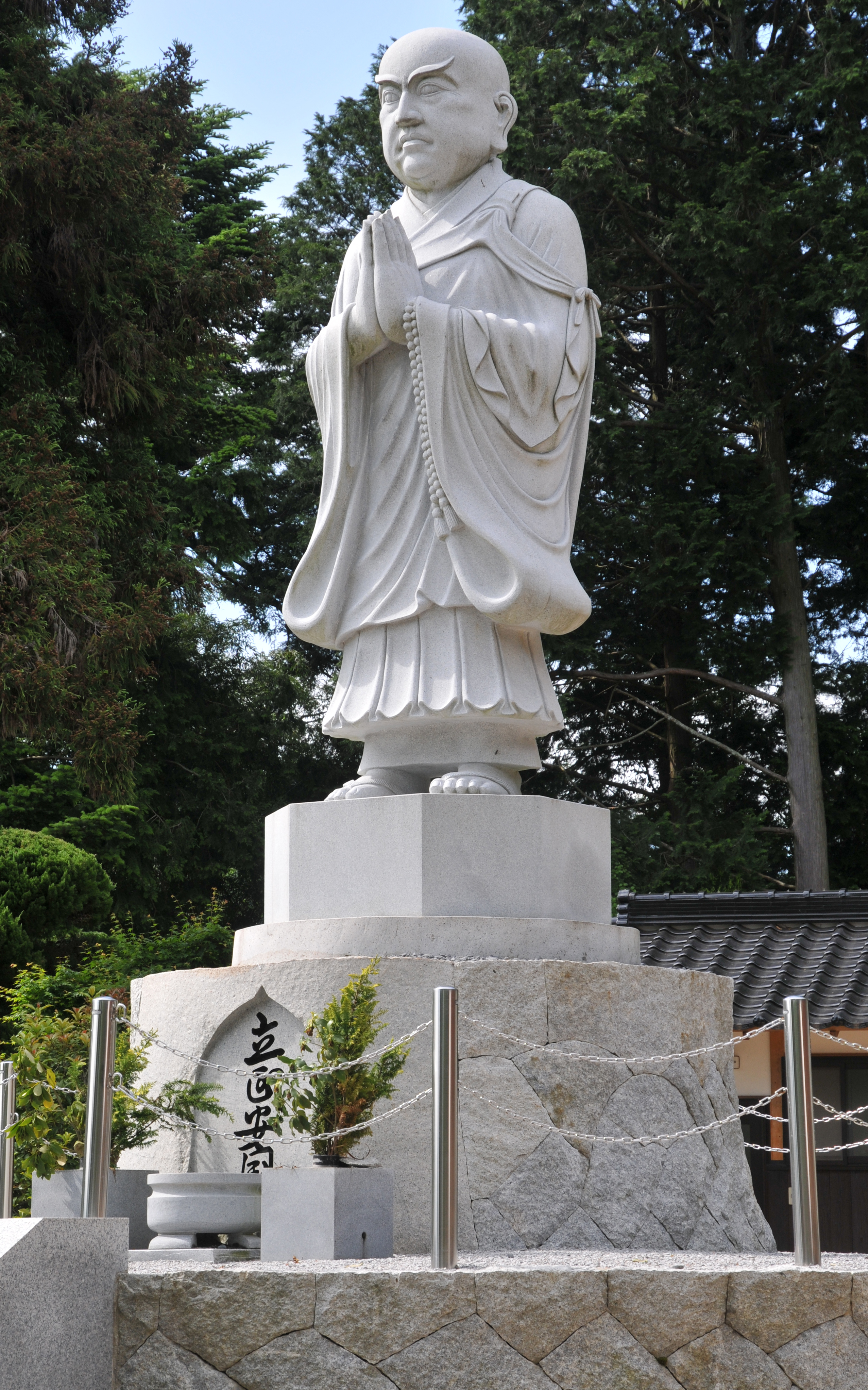 Nichiren statue, Myōhon-ji